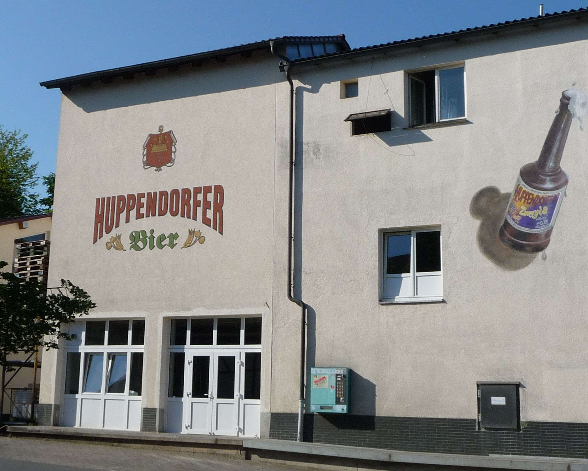 Huppendorf